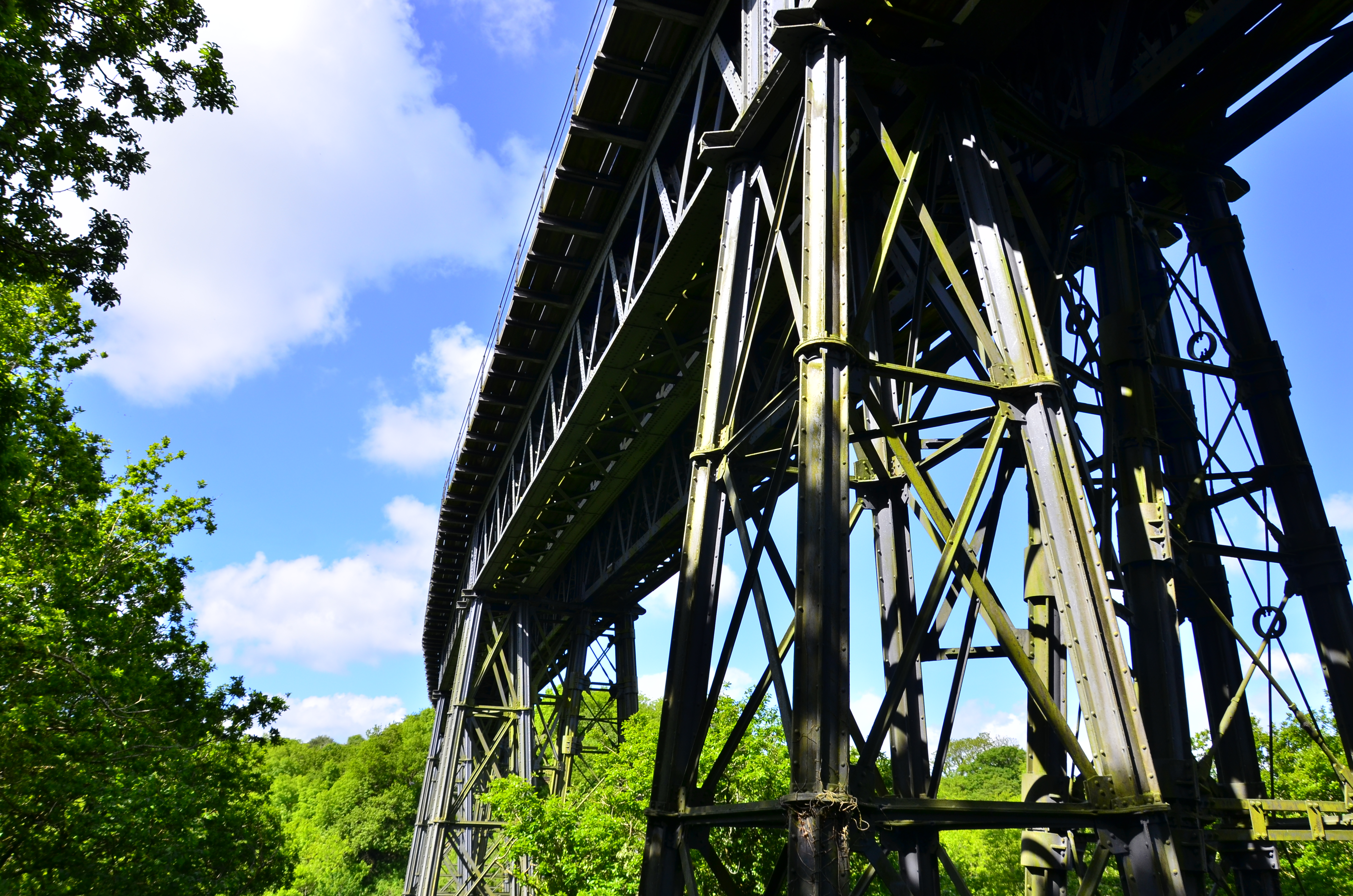 Meldon Viaduct Wikidata has entry Q16895021 with data related to this item.